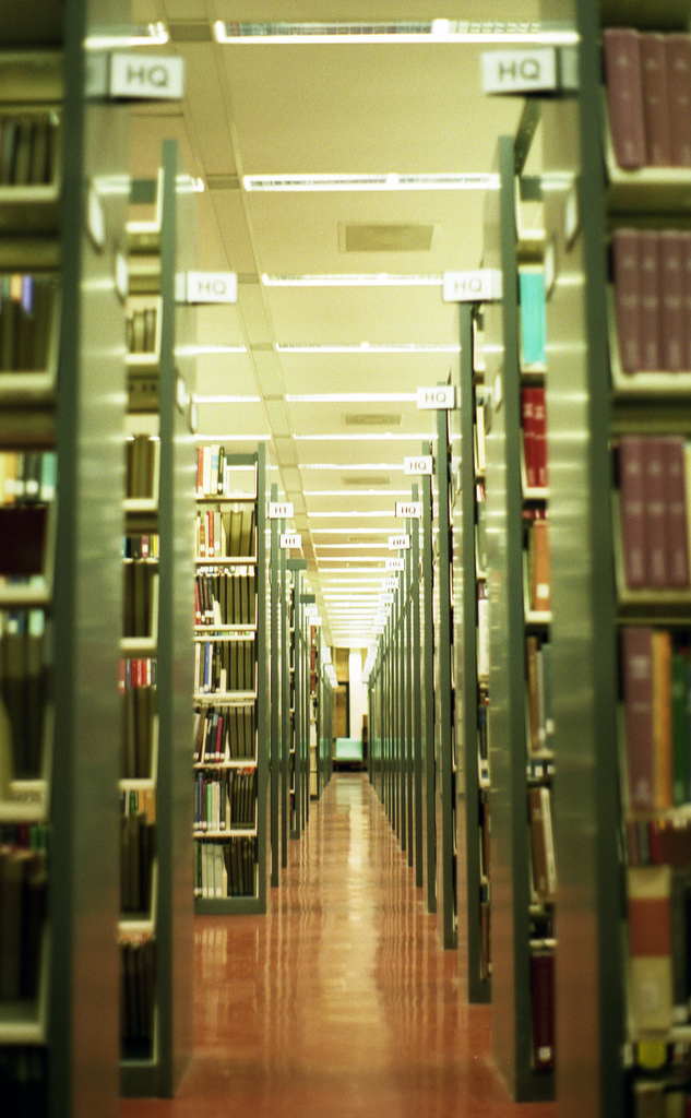 McHenry Library. University of California Santa Cruz When I took this shot, I was homeless, living out of my car in parking lots on campus and around town. It was a very cold winter. Sometimes my feet would get so cold that it would cause me to wake up in the middle of the night. The library was a nice place warm place where I could sit around with electricity and wifi and dread going back out to my cold car. This was about 7 weeks after I graduated with my B.A.